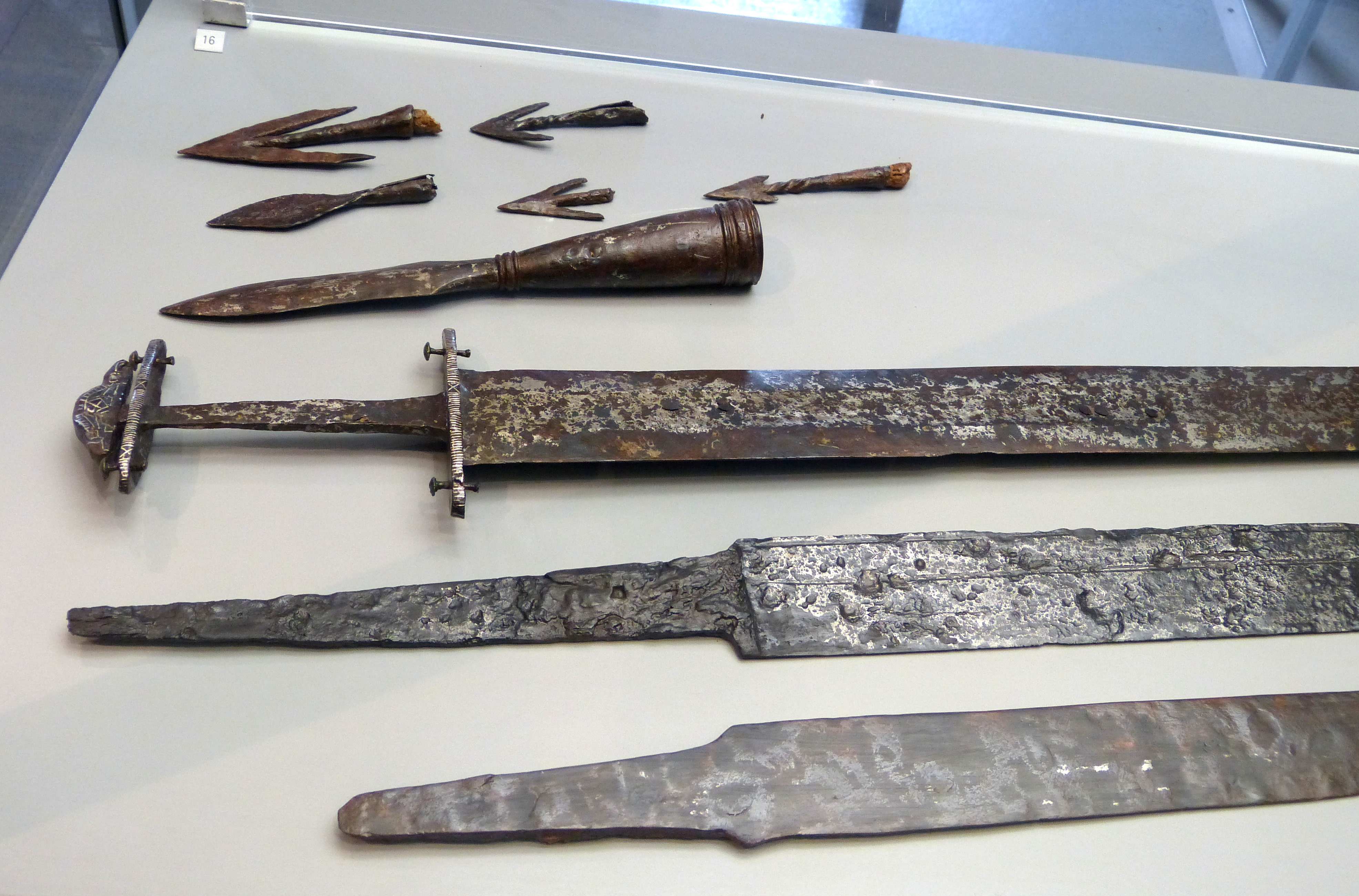 Landau an der Isar ( Lower Bavaria ). Archaeological Museum of Lower Bavaria: Swords, spear and arrow heads, from Bavarii graves in Peigen ( Pilsting )